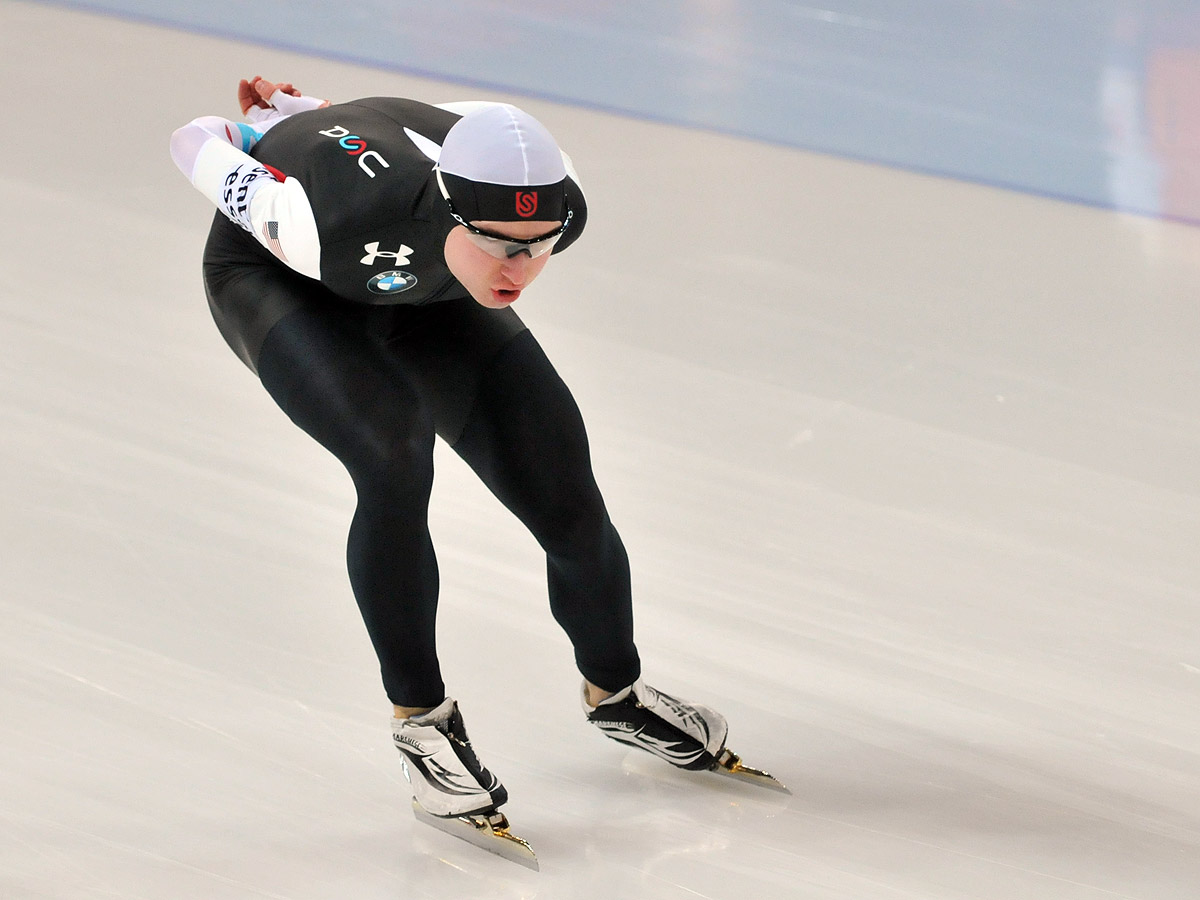 Jonathan Kuck at the World Allround Championships in Hamar 2013.